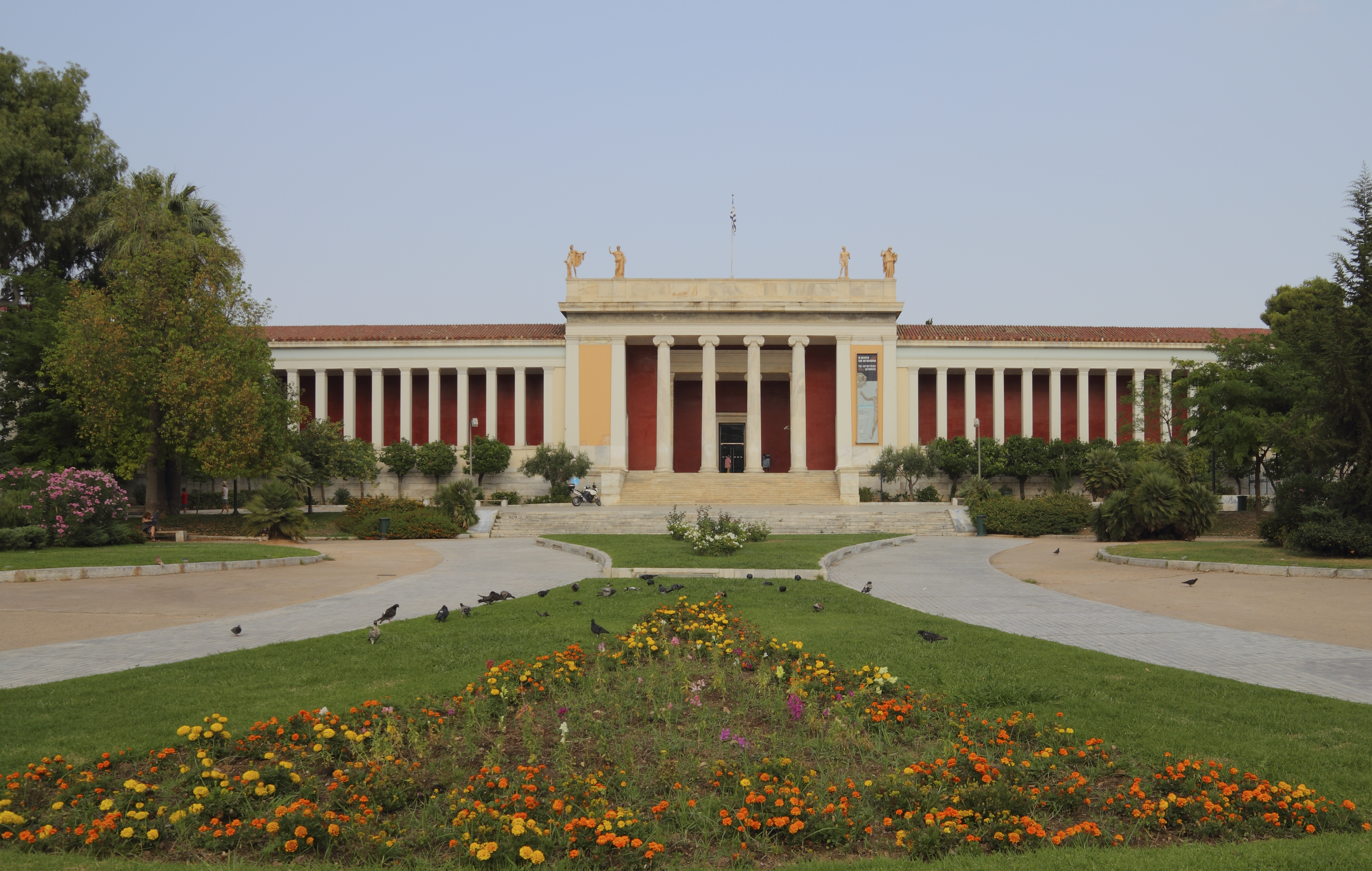 Archaeological Museum in Athens (Attica, Greece)